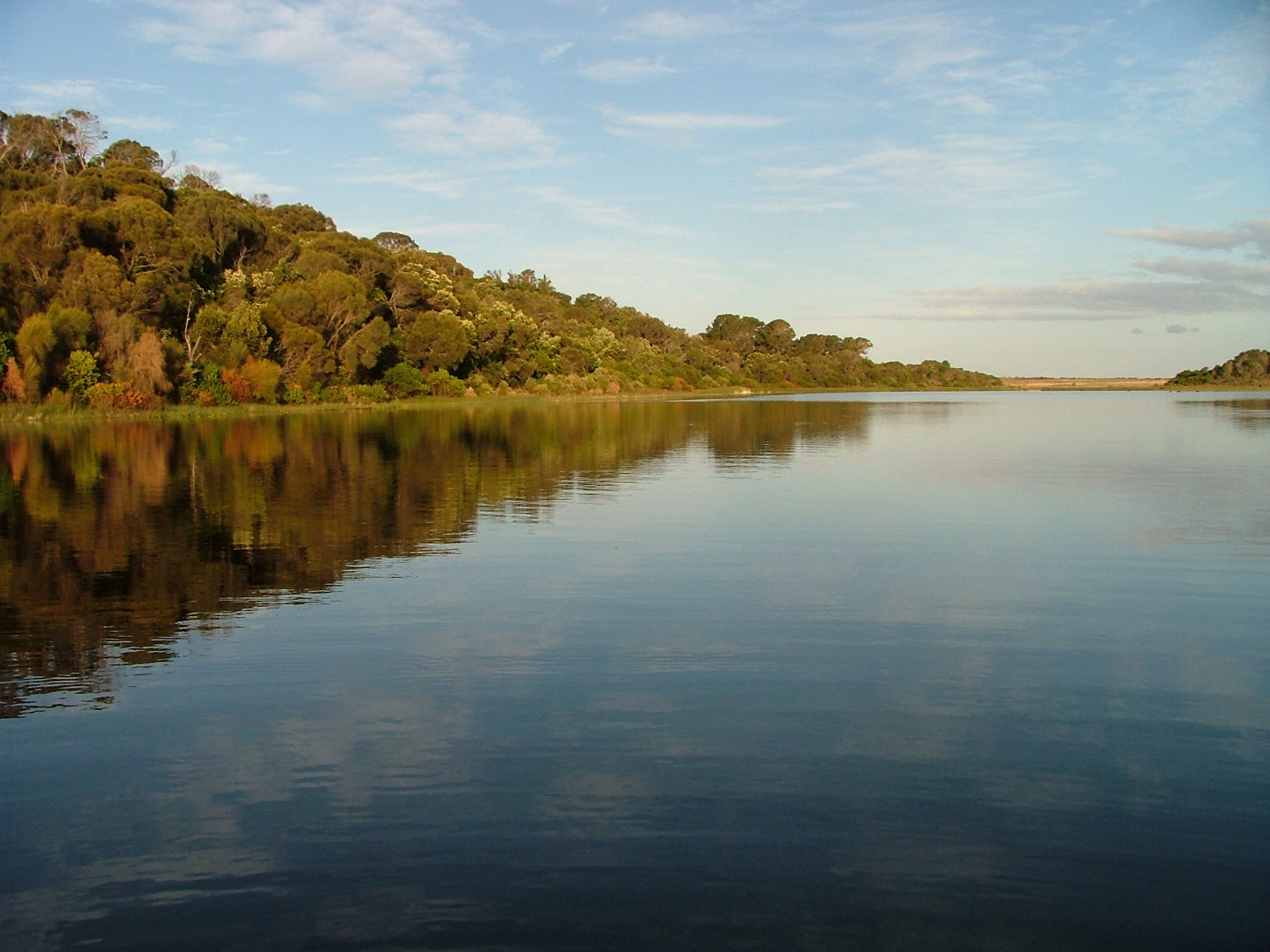 A view down Little Waterhouse Lake